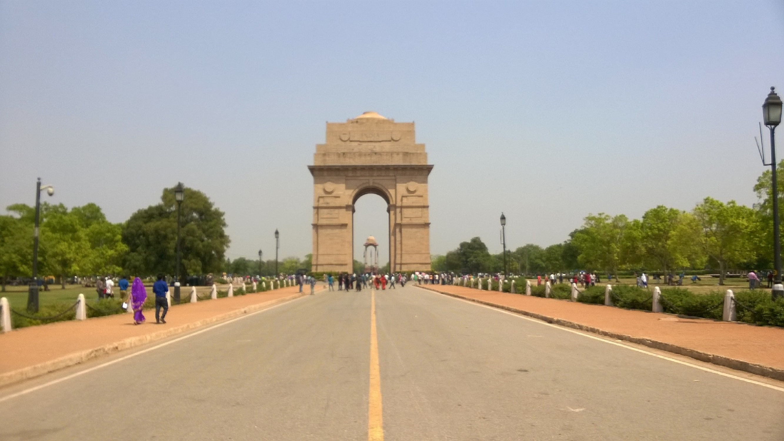 India Gate, a shot from the Rajpath